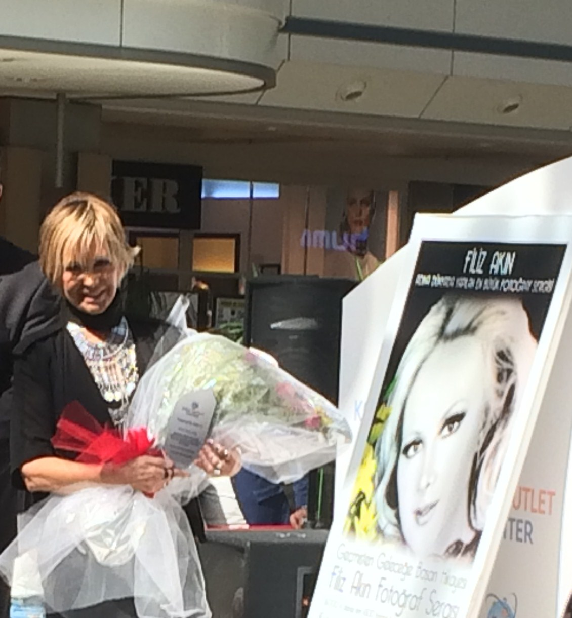 Filiz Akın